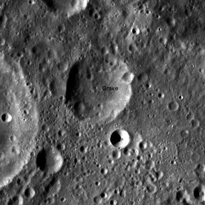 Grave lies in the northern Gagarin floor, adjacent to Isaev crater.